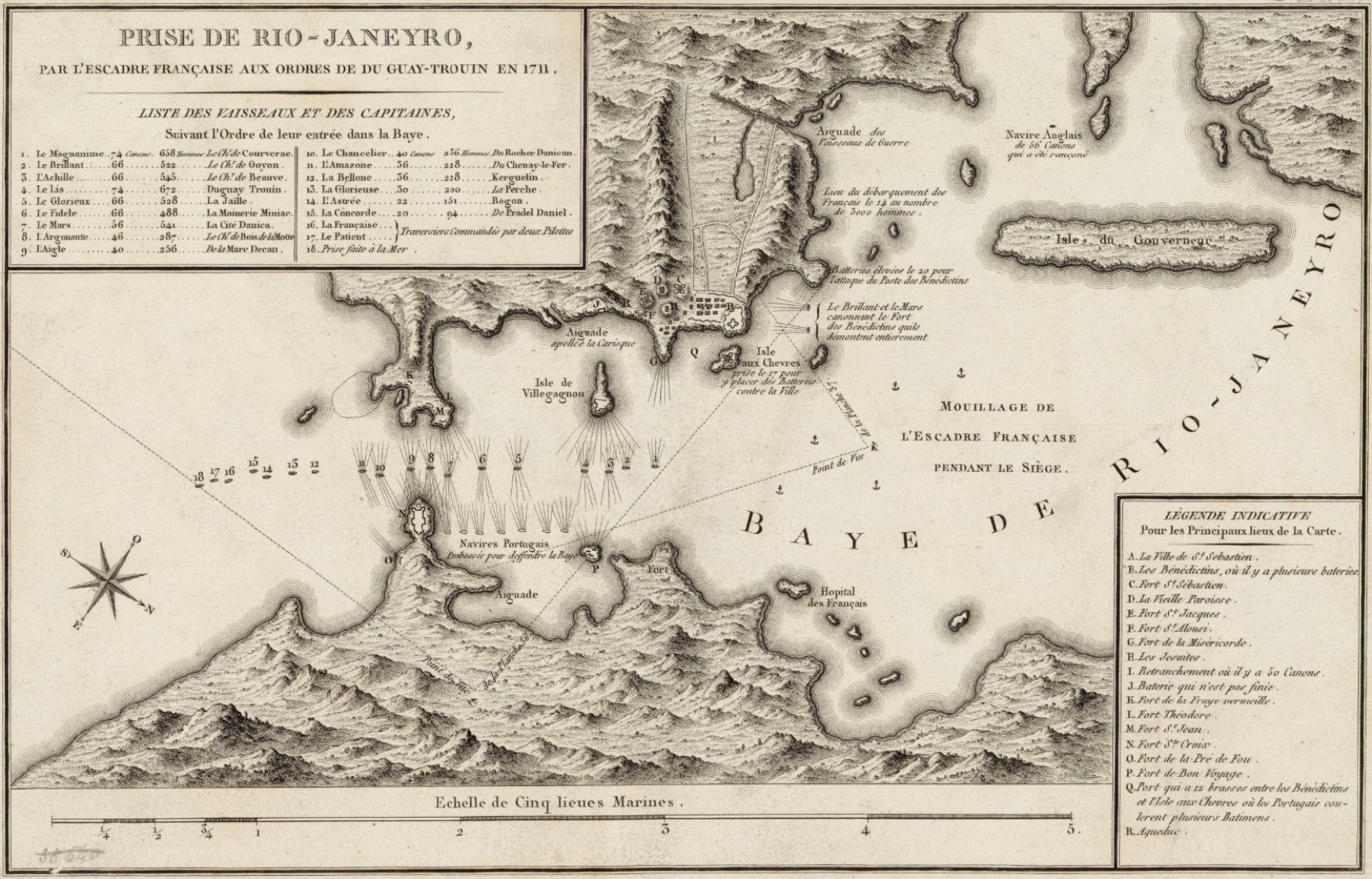 Plan of the French attack on Rio de Janeiro in 1711 by the squadron of Duguay-Trouin. General plan of the attack dated 1711, but probably later because the return was only in February 1712. War of Succession of Spain.